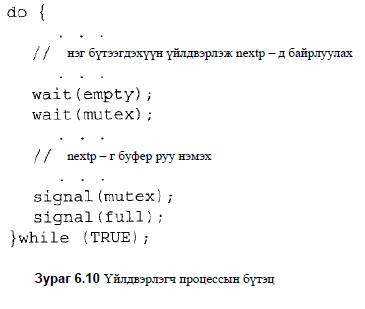 PROCEDUR